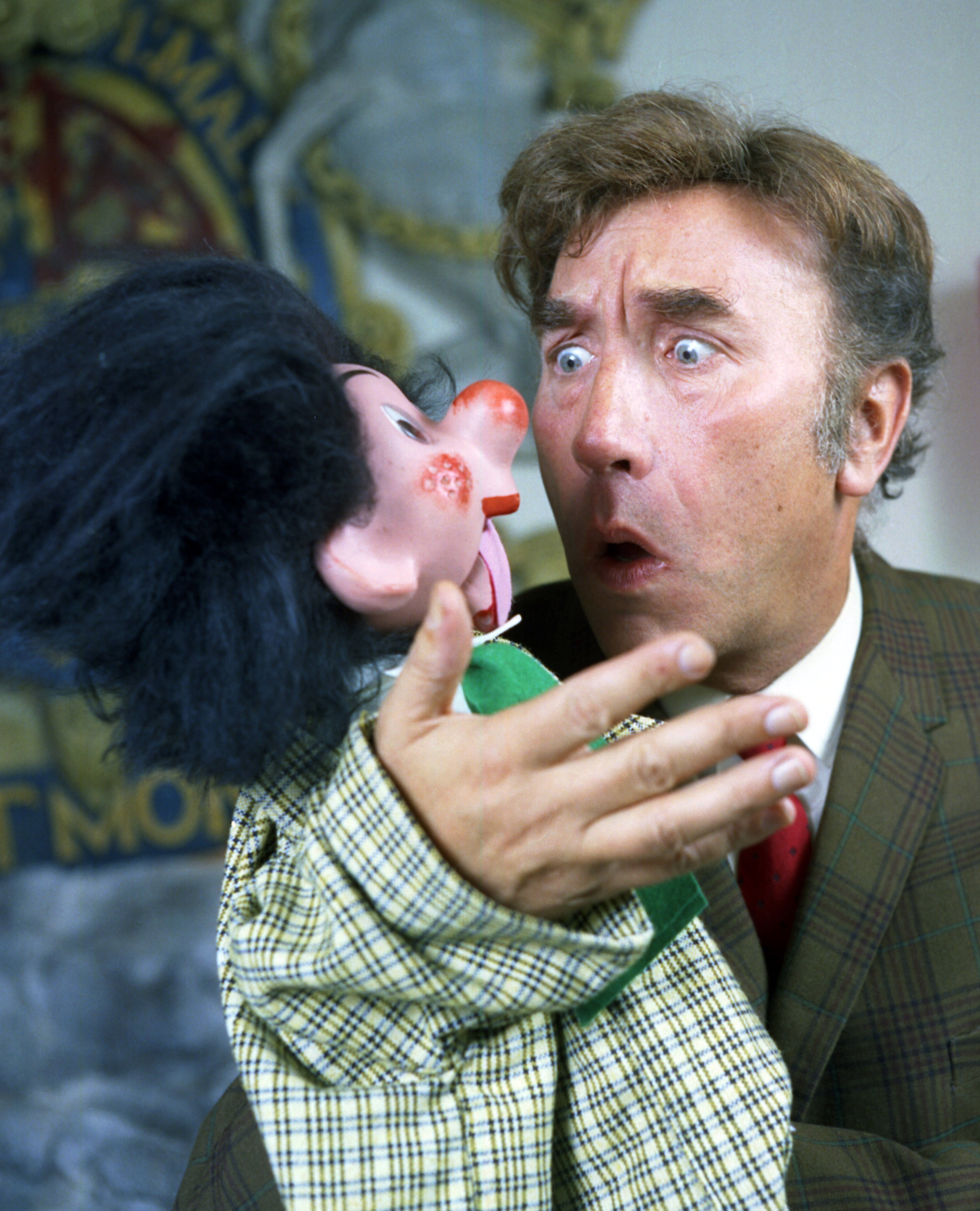 portrait of Frankie Howerd in London